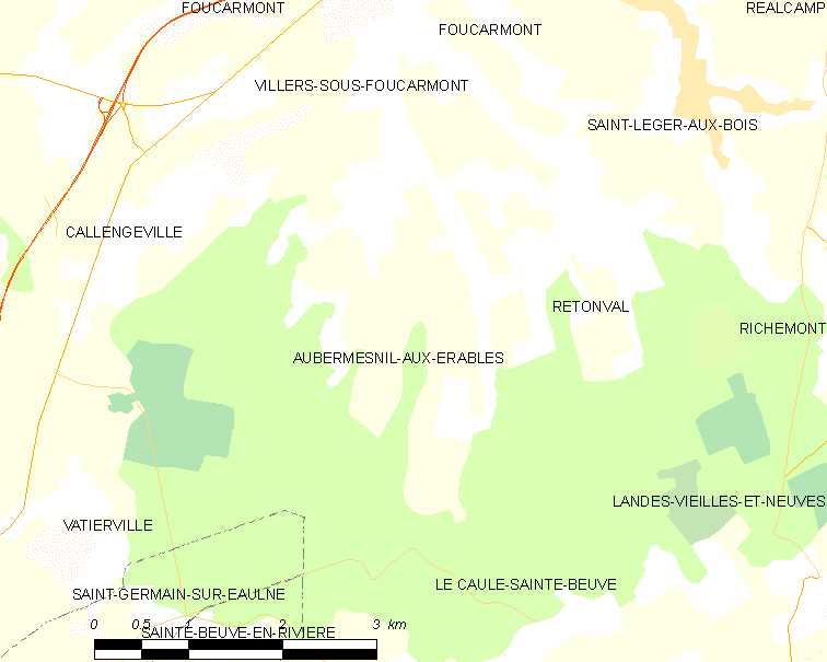 Map of French municipality Aubermesnil-aux-Érables